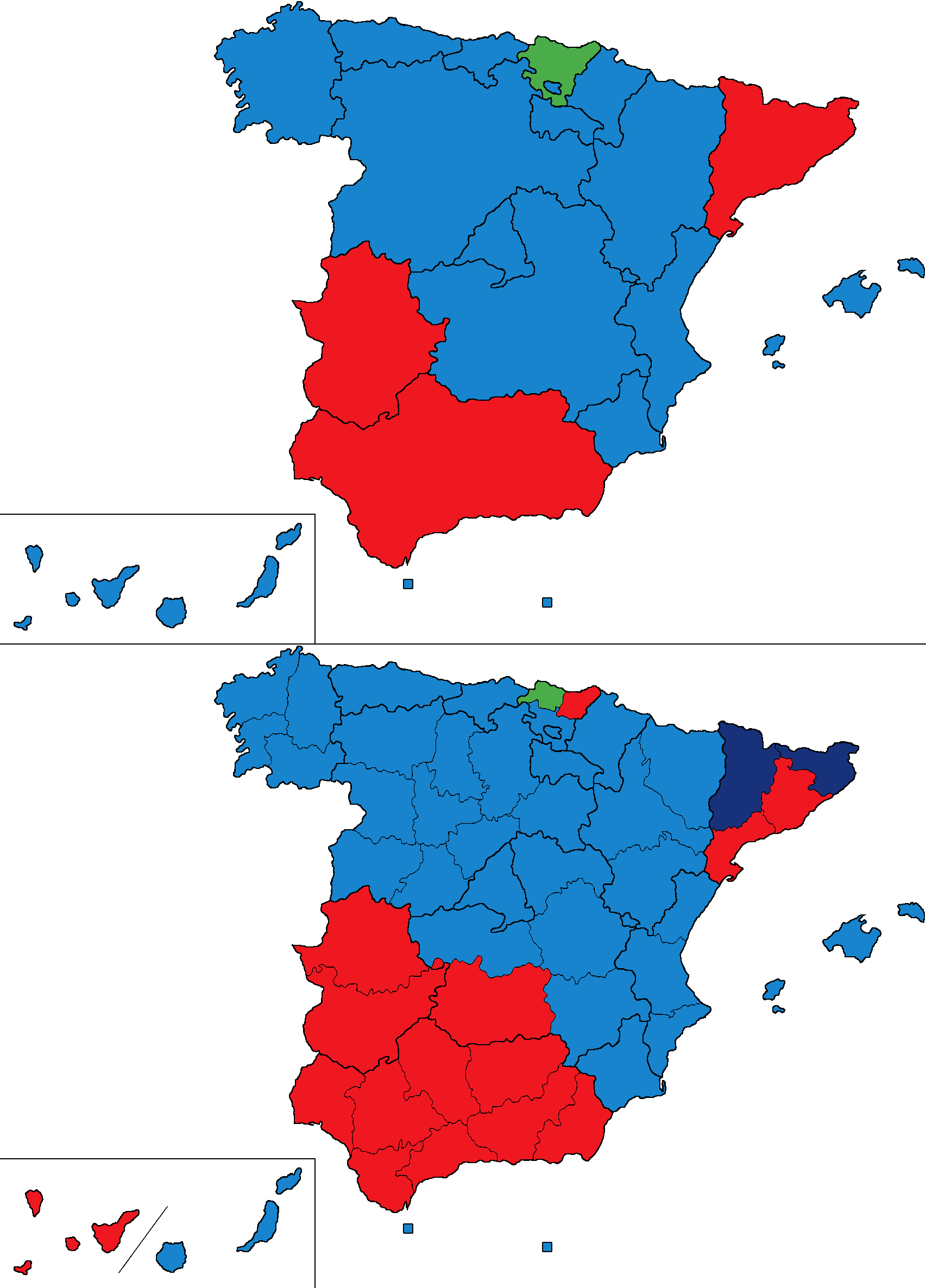 Most voted party in the 1996 Spanish Congress of Deputies election by autonomous communities and provinces.